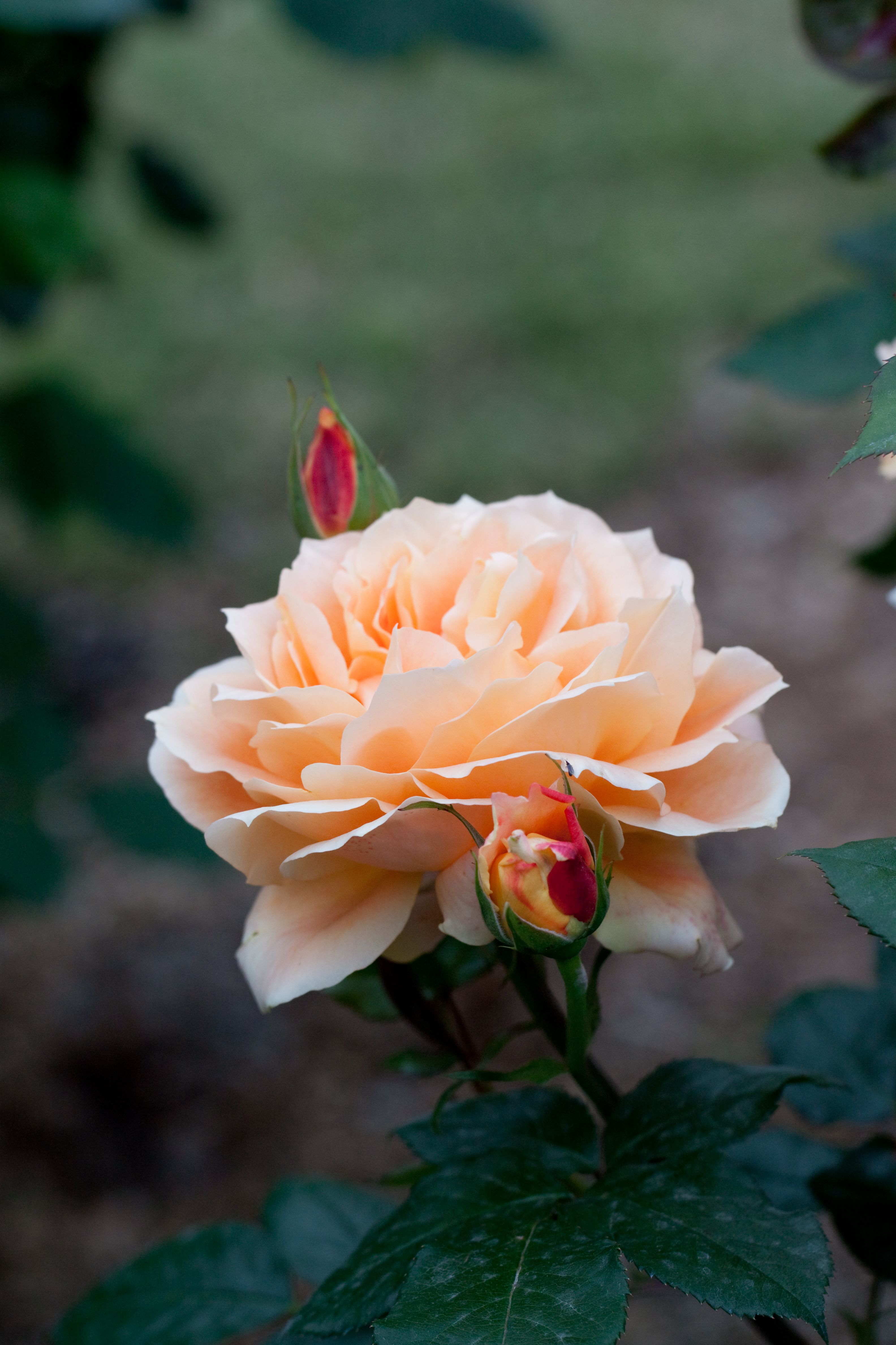 Manyo. The poetry of Japan has Manyo-shu (established around the late 7th century 8th century). Manyo is "a collection of thousands of words" means. Production in Japan. 万葉。